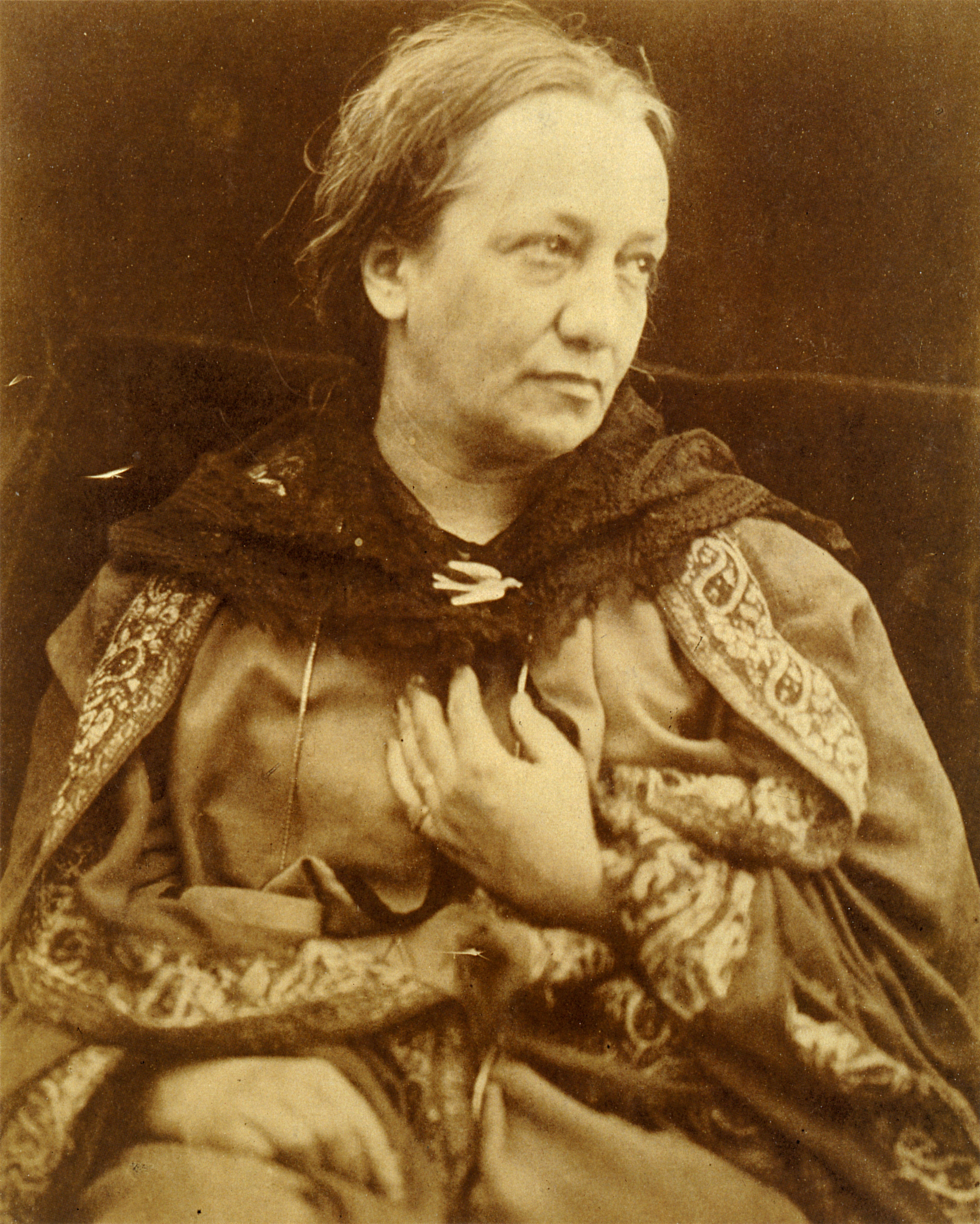 Albumen print, 244 x 203mm (9 5/8 x 8"). National Portrait Gallery: NPG P696